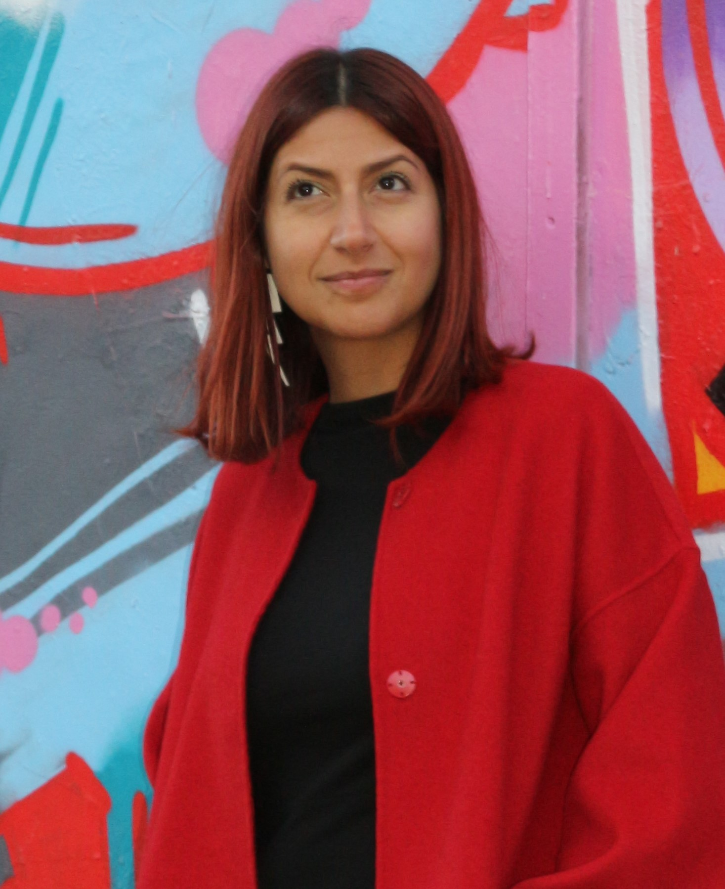 Roberta Lucca, London, November 2018.